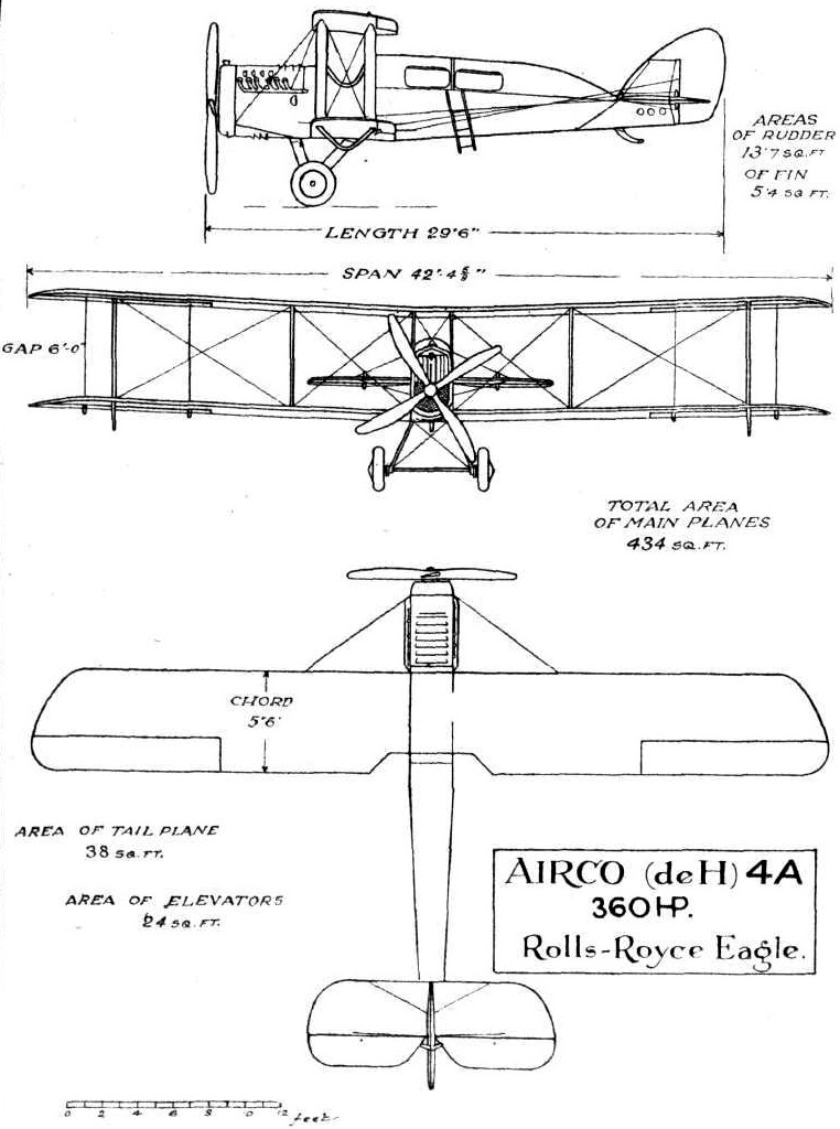 Three-view drawing of Airco (De Havilland) DH.4A civil passenger-carrying version.